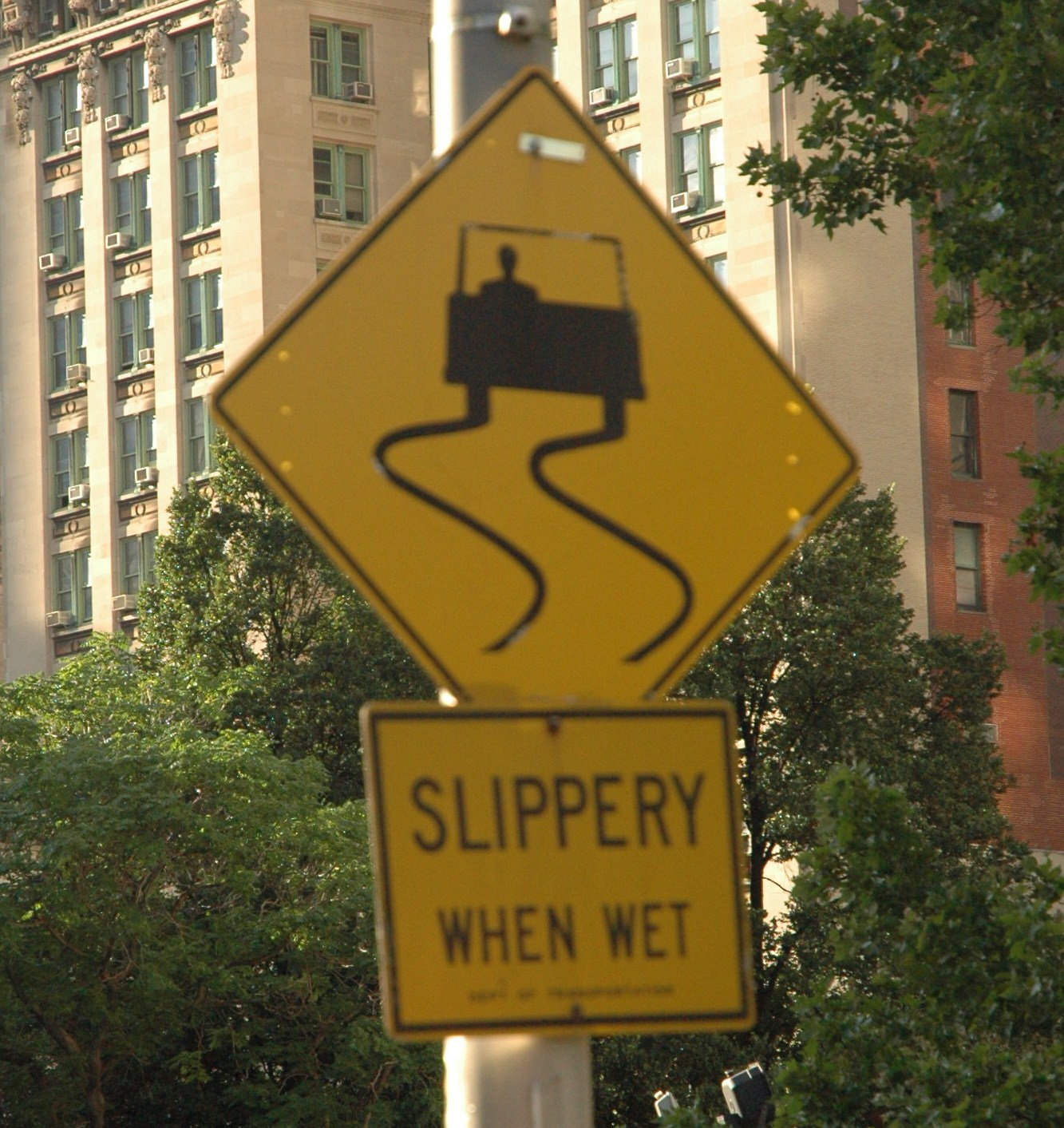 "Slippery When Wet"-Sign in Manhattan, NYC